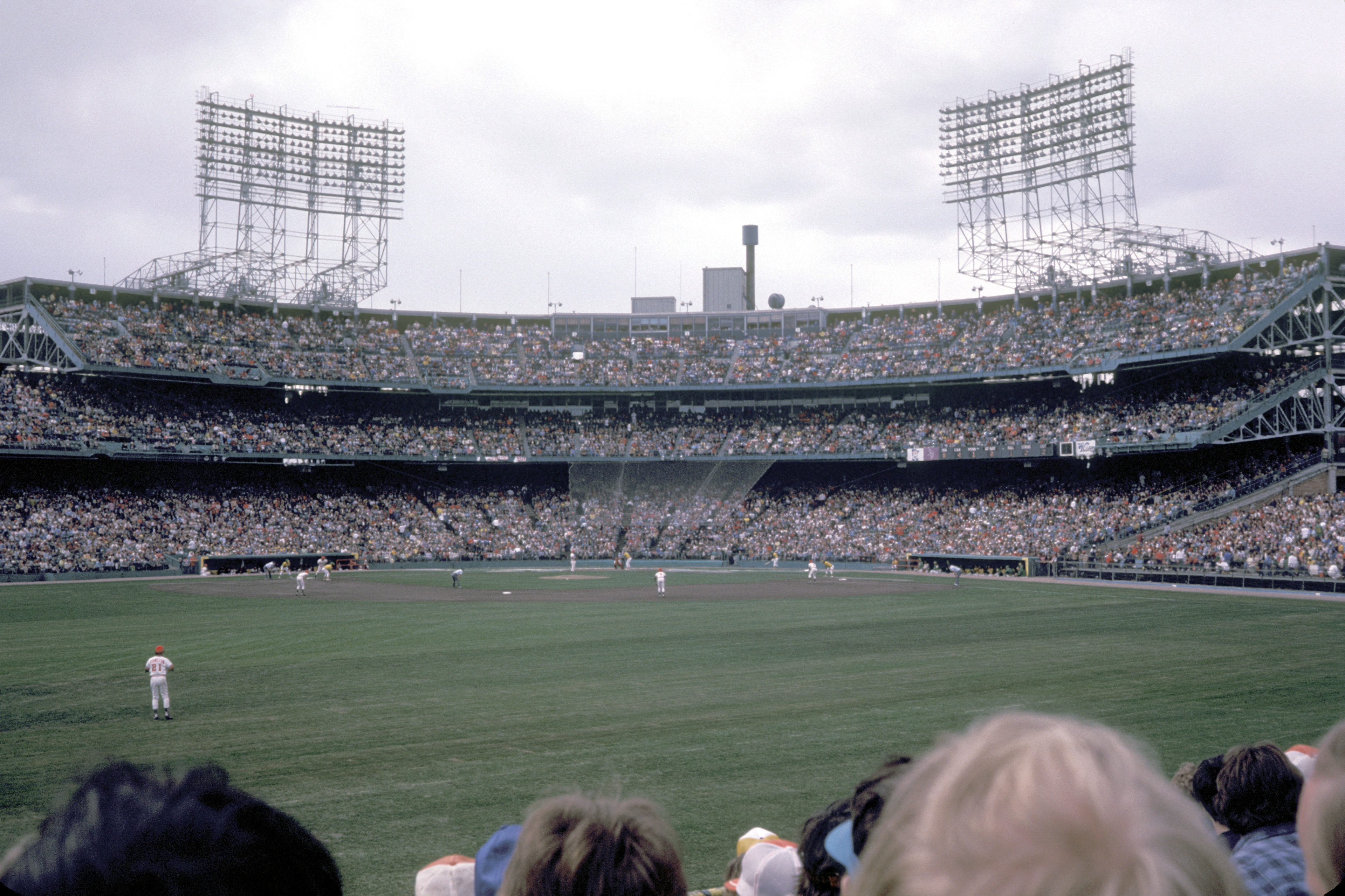 Taken by J. Petty (Snaebyllej2) using Canon GIII.